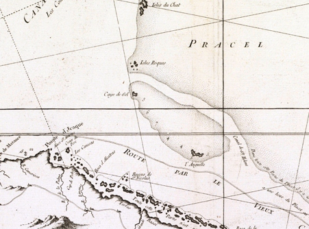 Section of the map Carte réduite de lisle de Cube. Author: Bellin, Jacques Nicolas Date: 1762